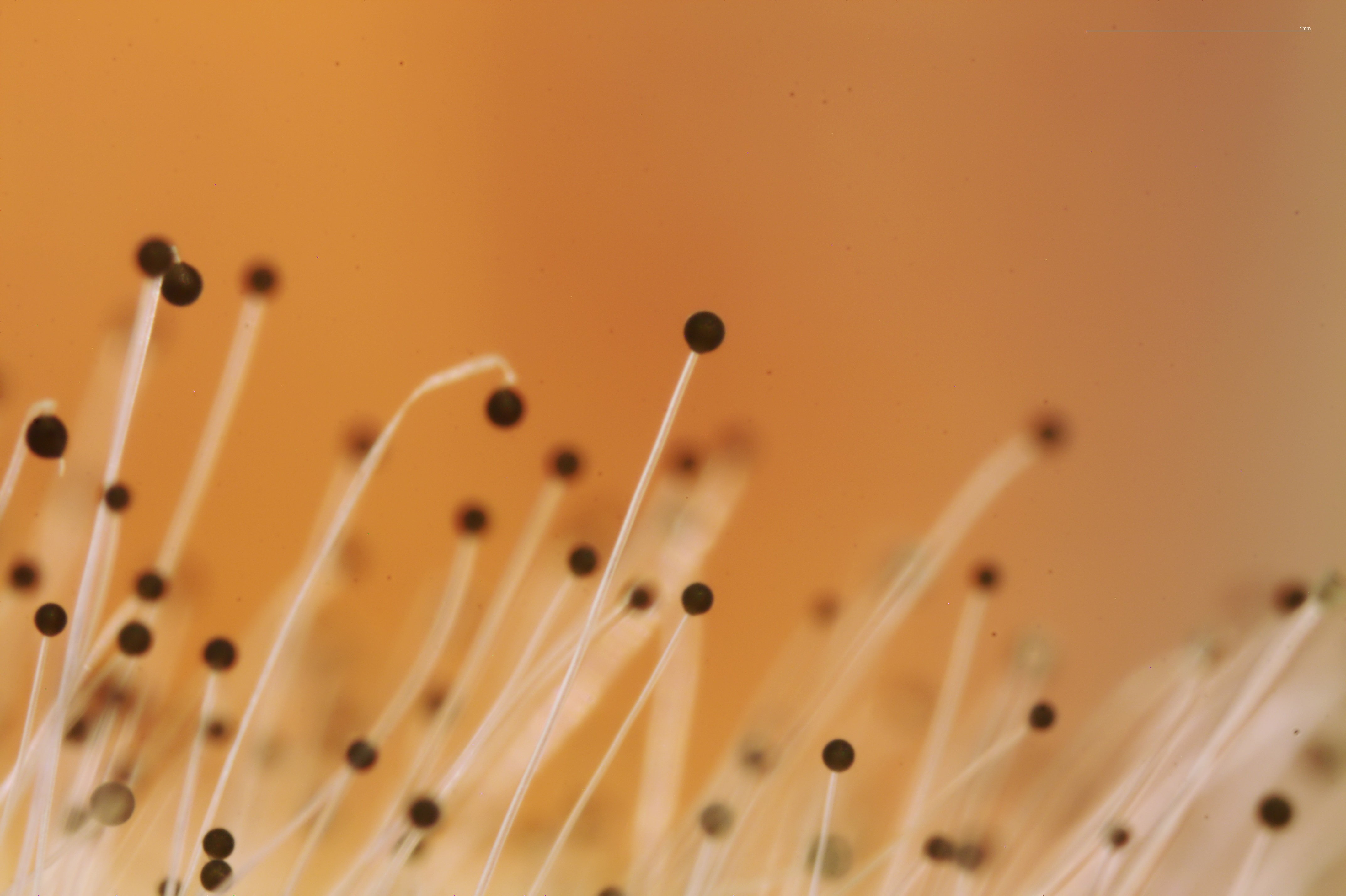 Pin mould on a peach.